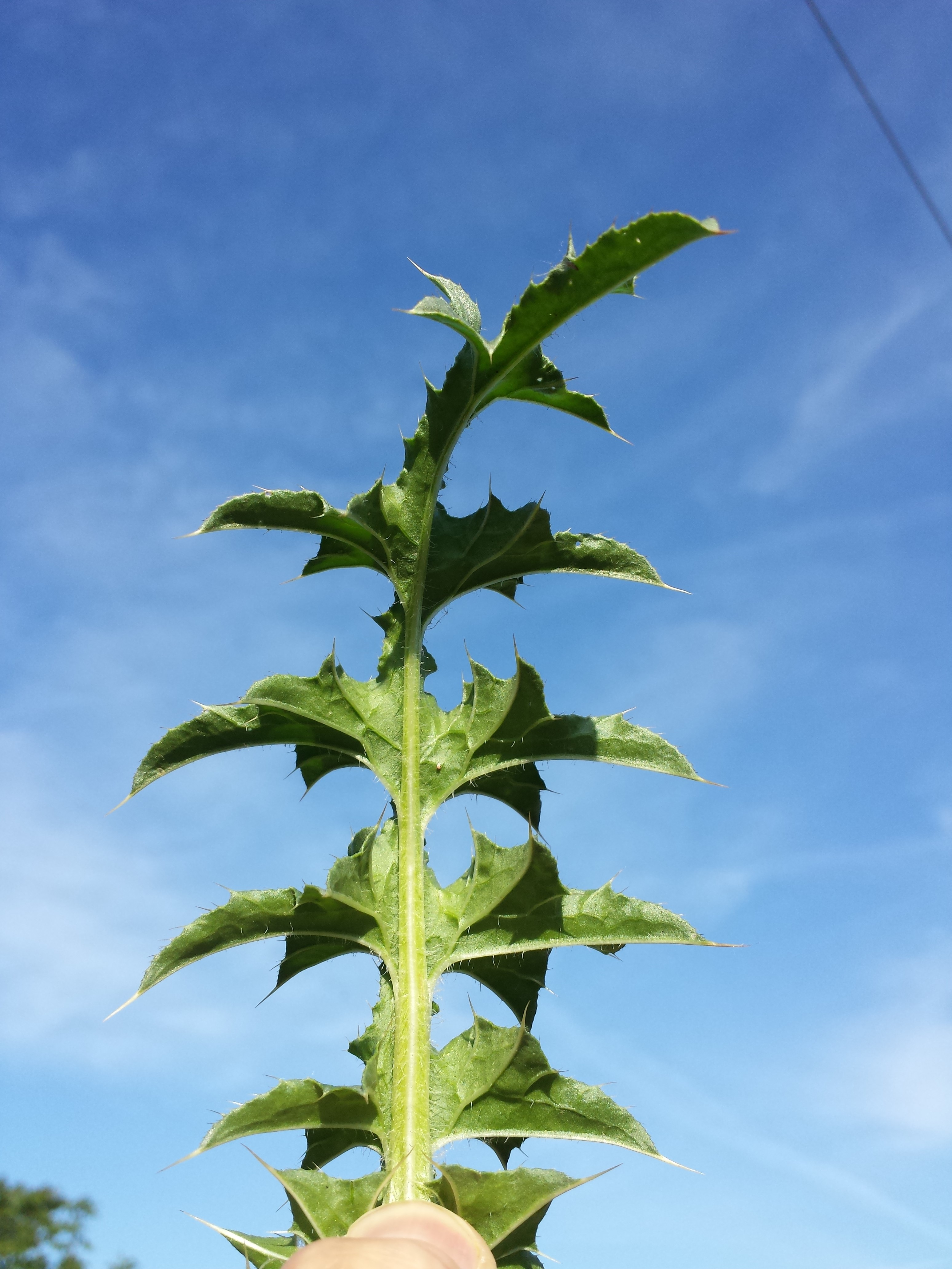 Leaf (bottom side) Taxonym: Carduus acanthoides ss Fischer et al. EfÖLS 2008 ISBN 978-3-85474-187-9 Location: Jedlersdorf rail station, Vienna-Floridsdorf - ca. 160 m a.s.l. Habitat: ruderal area